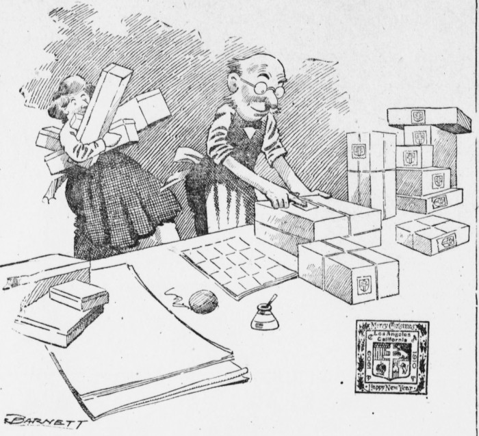 Cartoon of man pasting Christmas seals on a package while woman brings more packages to him. Drawing of a seal from Los Angeles, California, is at lower right. The original 1909 caption with this cartoon from the Los Angeles Herald of December 16, 1909, was "Help Fight the White Plague."